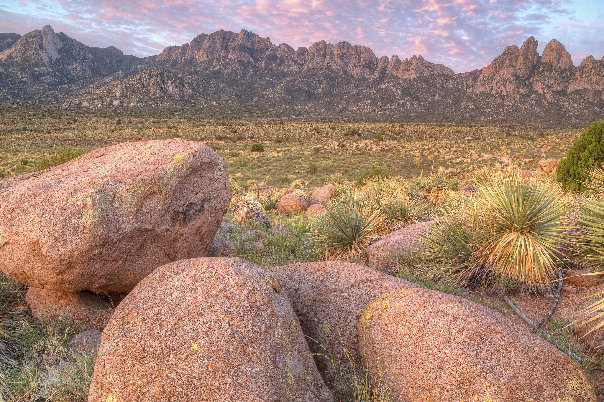 conservationlands15 Social Media Takeover, March 15th Our #conservationlands15 celebration continues with dinosaur finds on the BLM’s National Conservation Lands. Check out the Prehistoric Trackways National Monument just outside of Las Cruces, New Mexico, as a preview of cool things to come. The Monument includes a major deposit of Paleozoic Era fossilized footprint mega-trackways from a time that predates even the dinosaurs. The trackways contain footprints of numerous amphibians, reptiles, and insects (including previously unknown species) as well as plants and petrified wood dating back 280 million years. These fossils collectively provide new opportunities to understand animal behaviors and environments. The site contains one of the most scientifically significant Early Permian track sites in the world. Visitors can view trackways displays at the New Mexico Museum of Natural History in Albuquerque. And any trip to the Prehistoric Trackways and Las Cruces area should include the must-see Organ Mountains-Desert Peaks National Monument, just a stone’s throw away from across the Rio Grande Valley, and one of New Mexico’s most breathtaking landscapes. The area offers hiking, camping, rock climbing and nature study right in the back yard of the community. Photos by Bob Wick, BLM